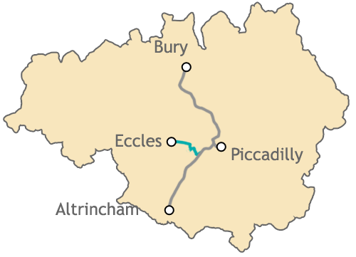 Outline of the route of the extension of Manchester Metrolink to Eccles